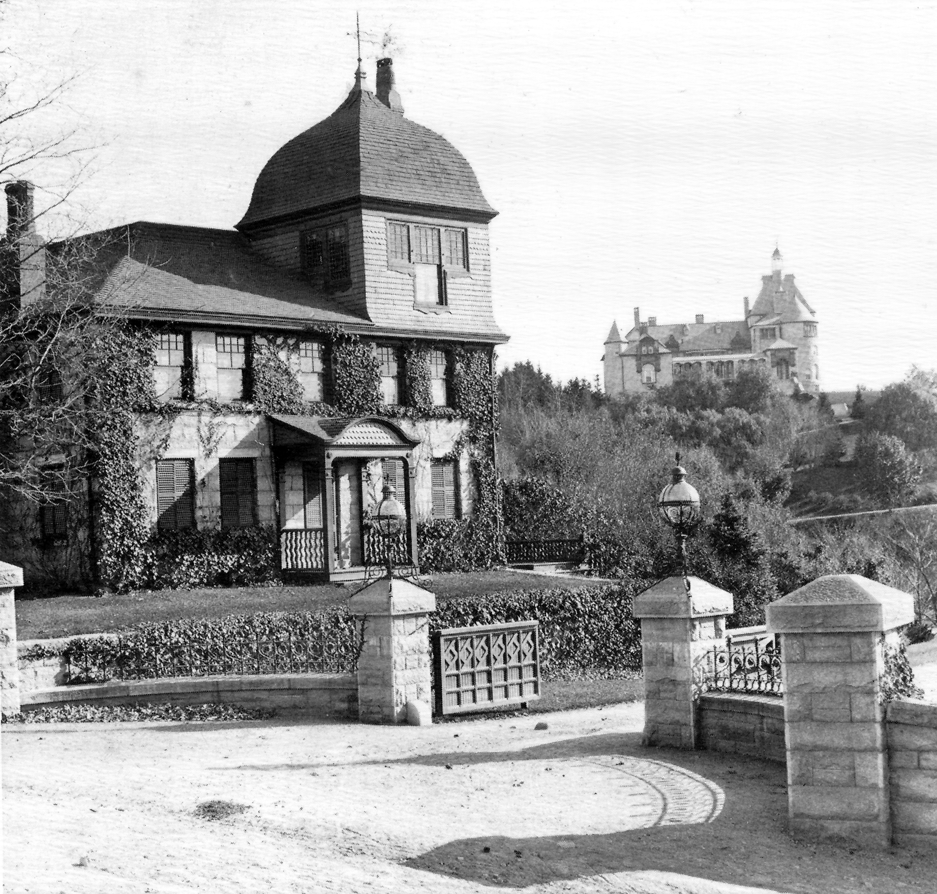 Estate of Charles H. Tenney, Pleasant St, Methuen, MA - Gatehouse in the foreground, Greycourt castle in the background. Now Greycourt State Park.